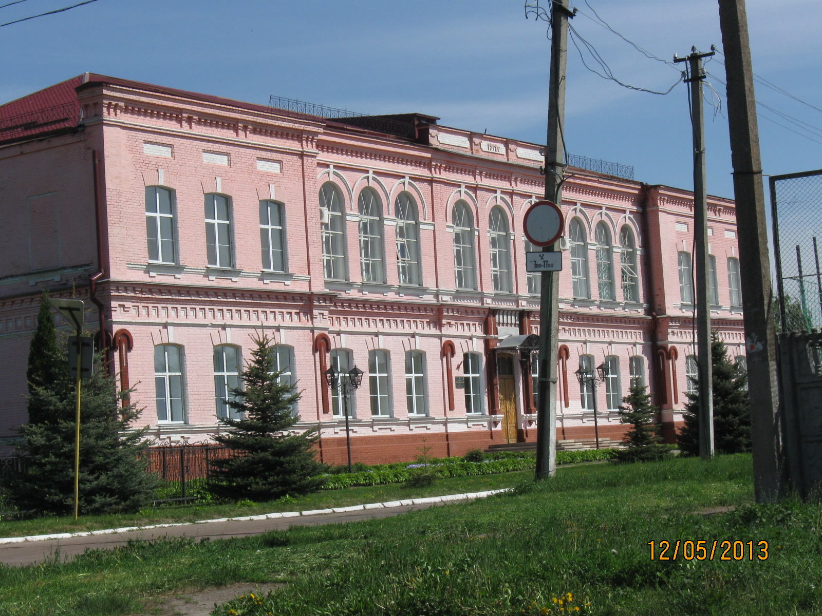 Panteleimon Kulish Gymnasium in Borzna, Ukraine